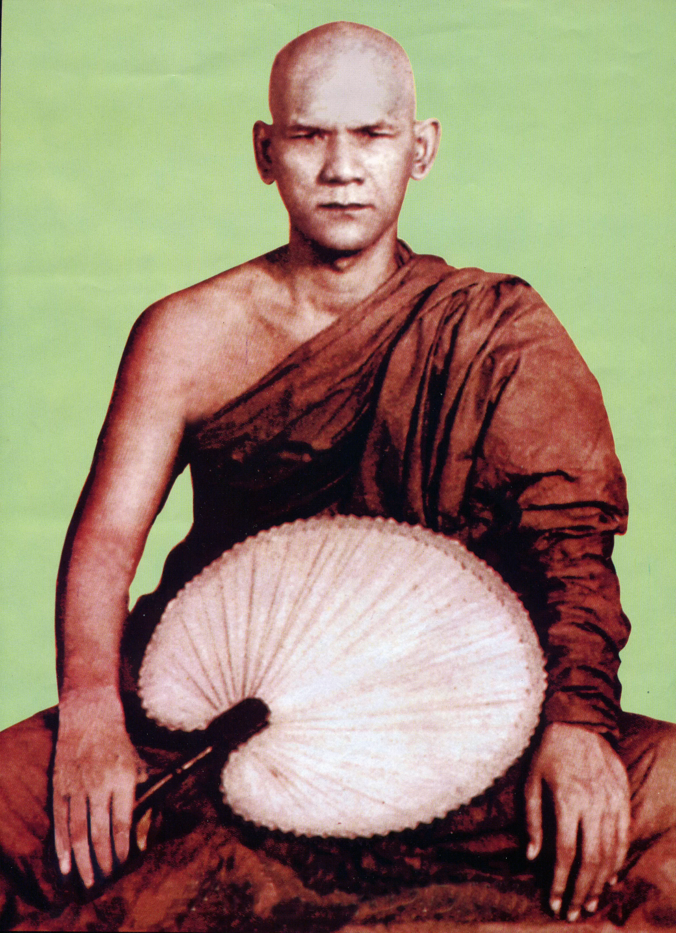 Mahasi Sayadaw portrait